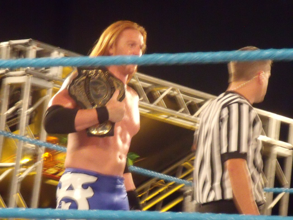 Faced #1 contender Tyler Reks